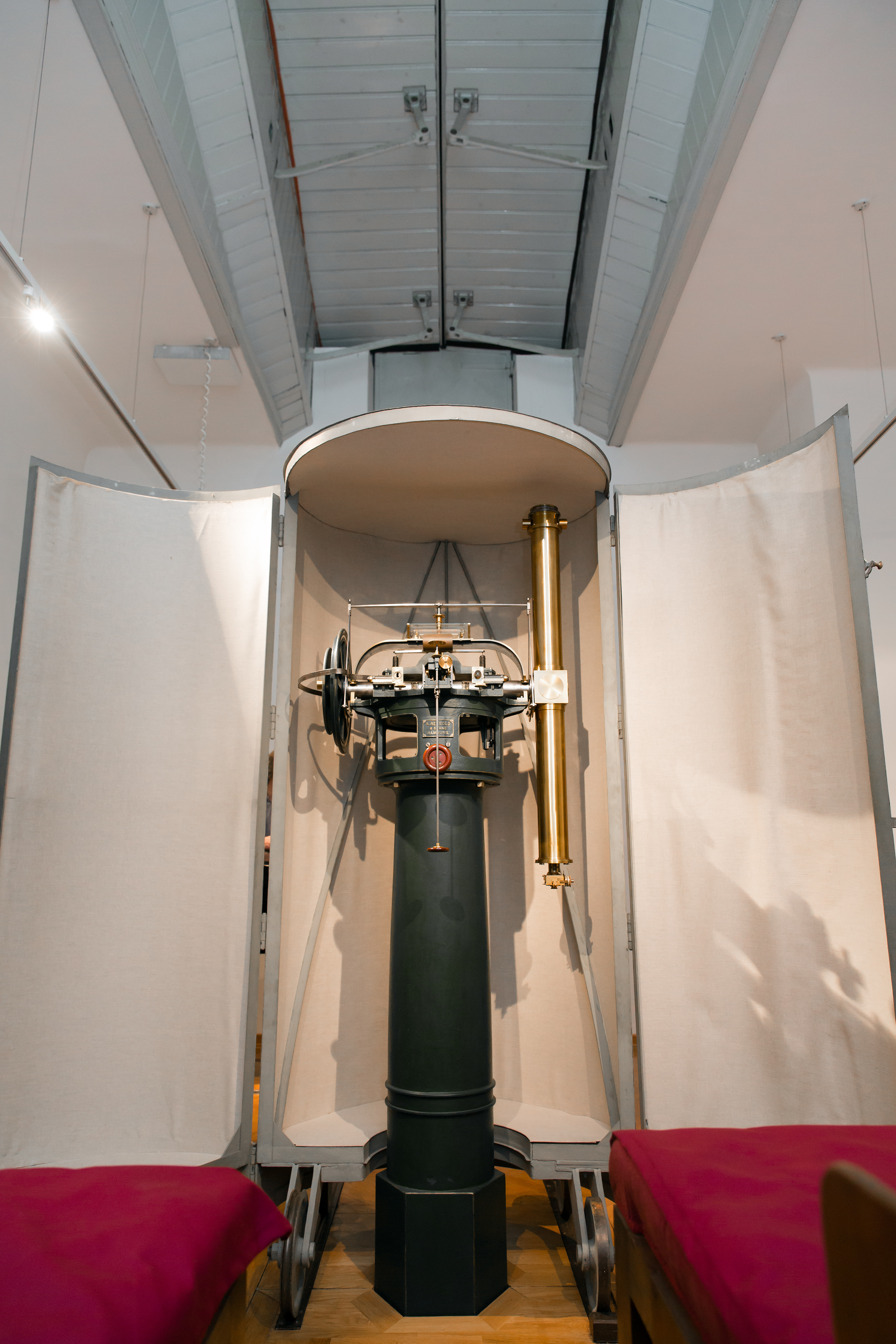 Kuffner Observatory, Vienna, Austria - Vertical circle